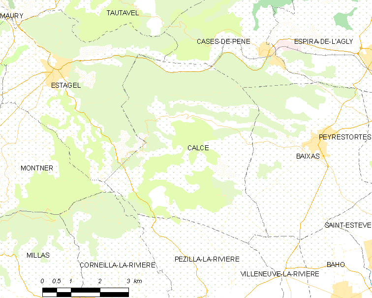 Map of French municipality